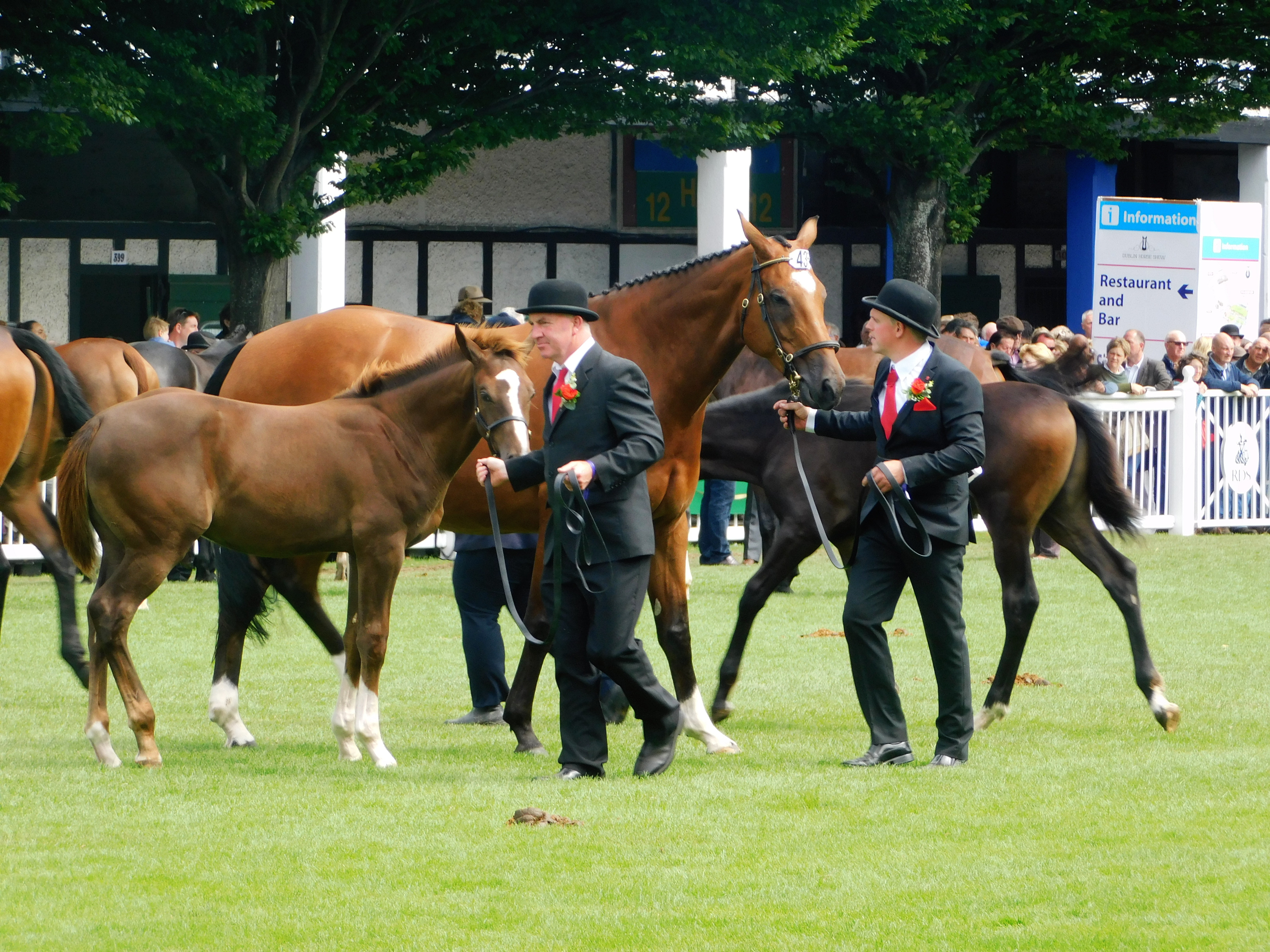 Dublin Horse Show 2017, Class 49 Breeders' Championship - Aidensfield Flamenco [IHR 5288151] (Irish Sport Horse). Sire: Je T'aime Flamenco, Dam: HHS Charmed, Damsire: Aldato. With unnamed foal (Irish Sport Horse). Sire: Tyson (KWPN).